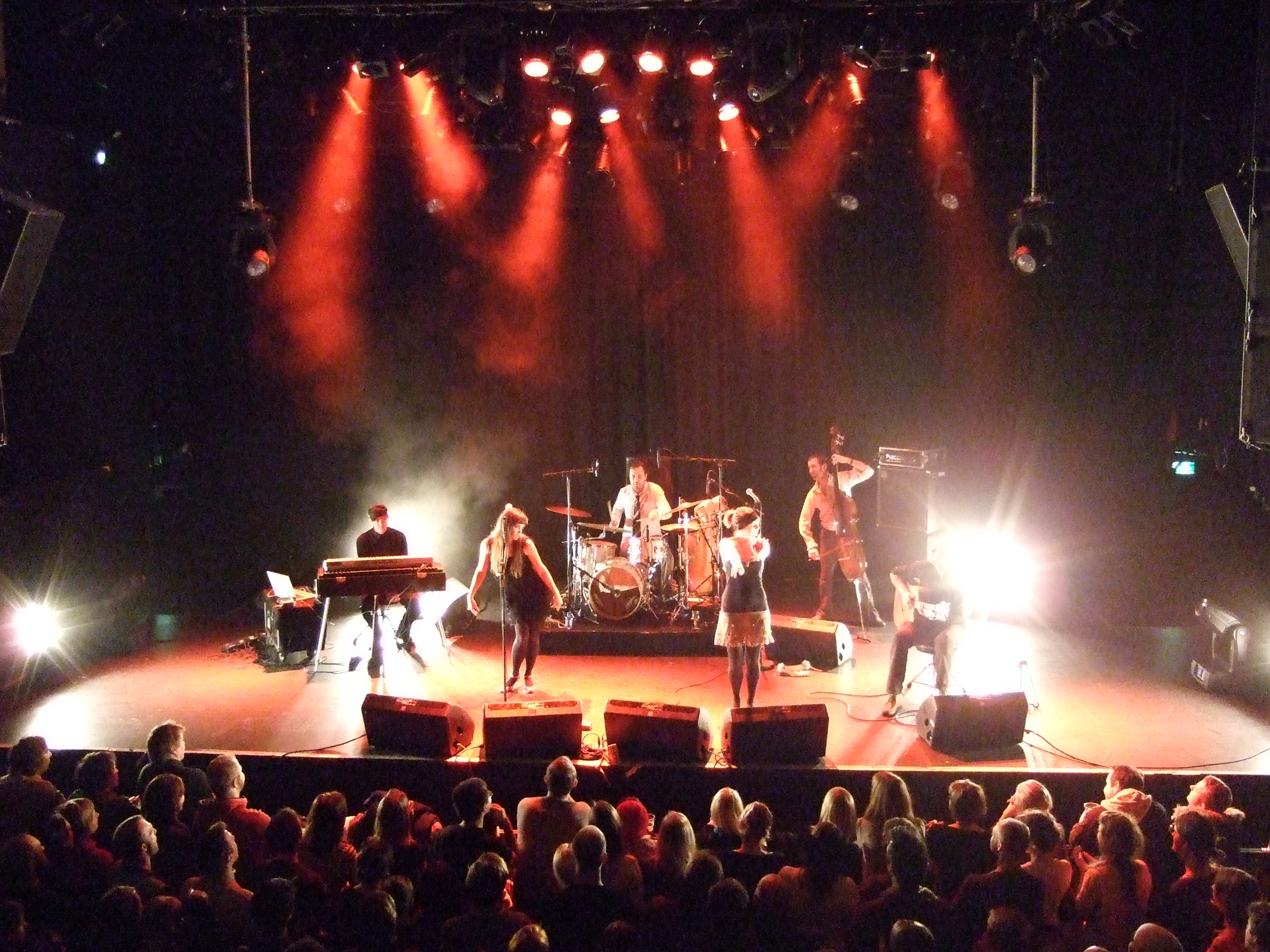 French band Nouvelle Vague in concert at Rockefeller Music Hall in Oslo, Norway